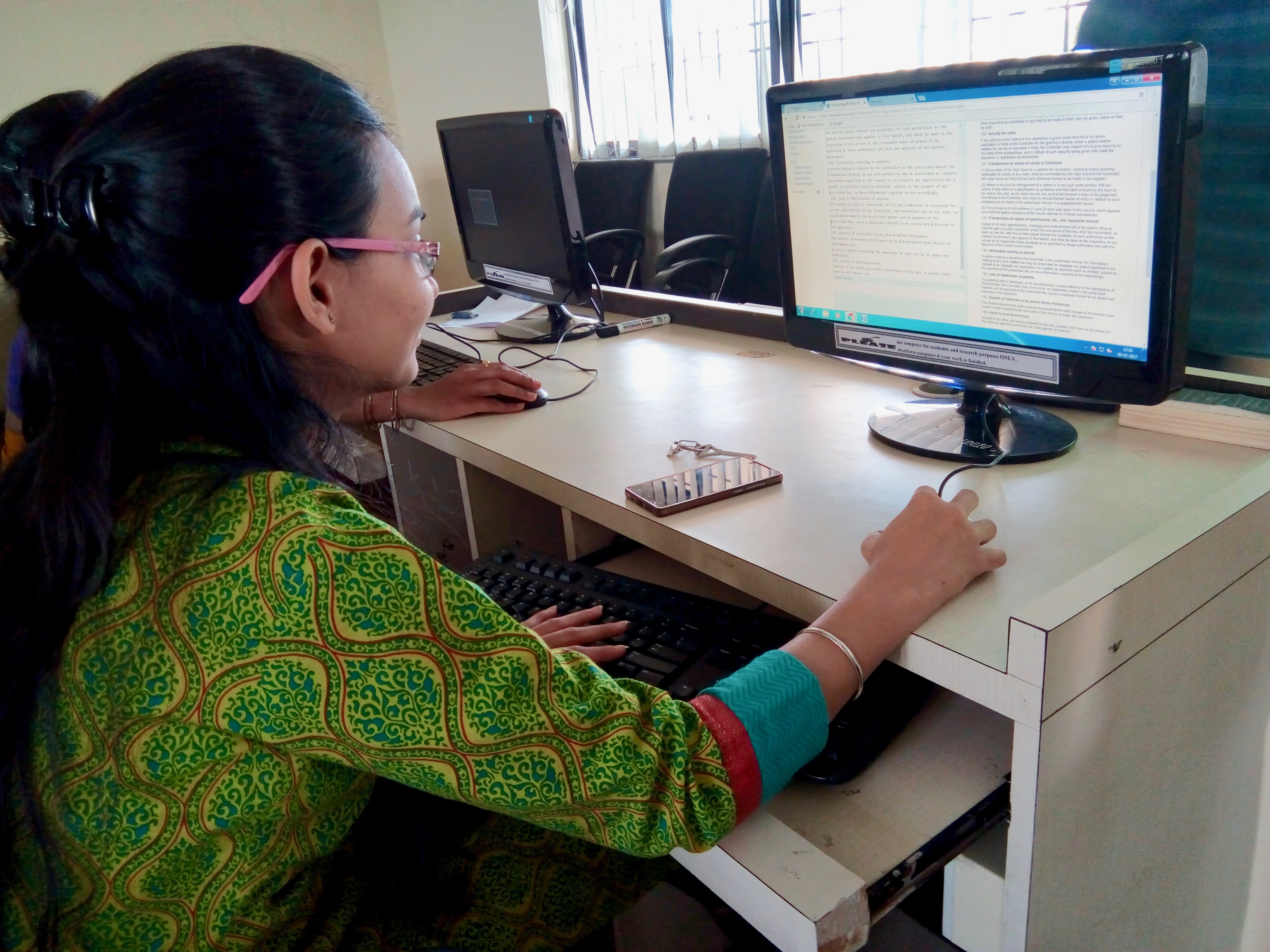 Involved in Proof reading of Laws